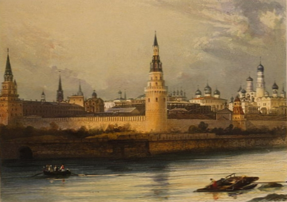 Print of engraving based on daguerreotype. Vue du Kremlin à Moscou. Etching and aquatint, color, with hand-coloring. Illustration in: "Excursions Daguerriennes", Paris: published by Noël Paymal Lerebours (1807-1873), Rittner et Goupil, 1842, plate 53.